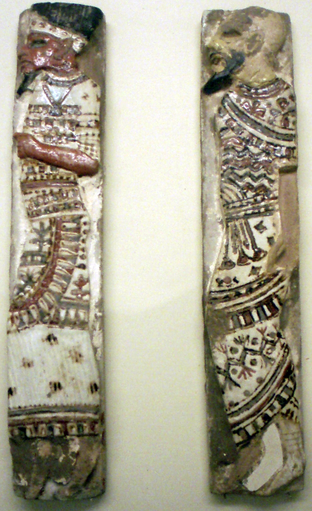 Glass and faience inlays found at by the royal palace adjacent to the temple of Medinet Habu, from the reign of Ramesses III (1182-1151 B.C.) Representation of a bound Philistine and an Amorite captive. On display at the Museum of Fine Arts, Boston.